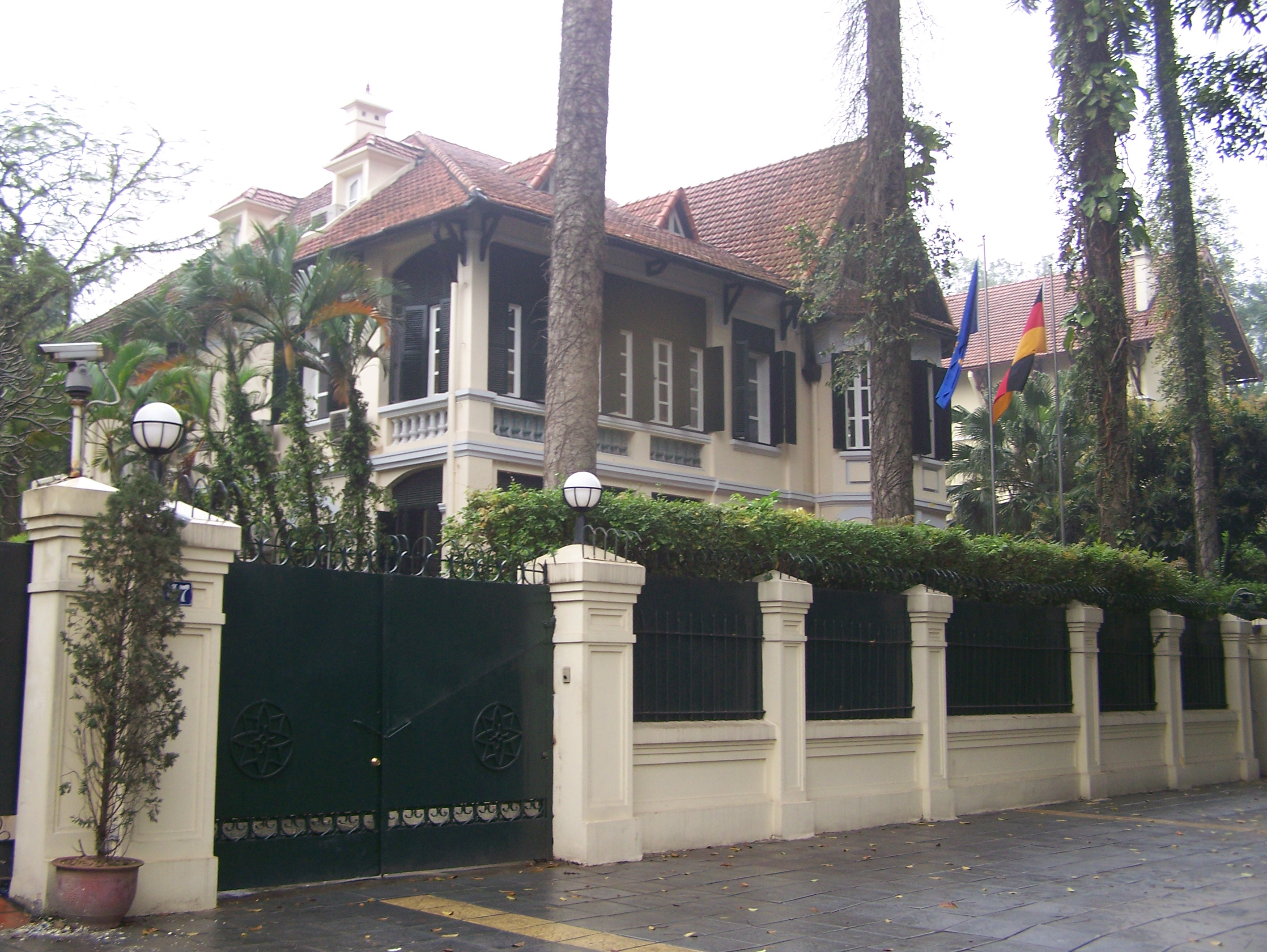 Embassy of Germany in Hanoi, Vietnam.